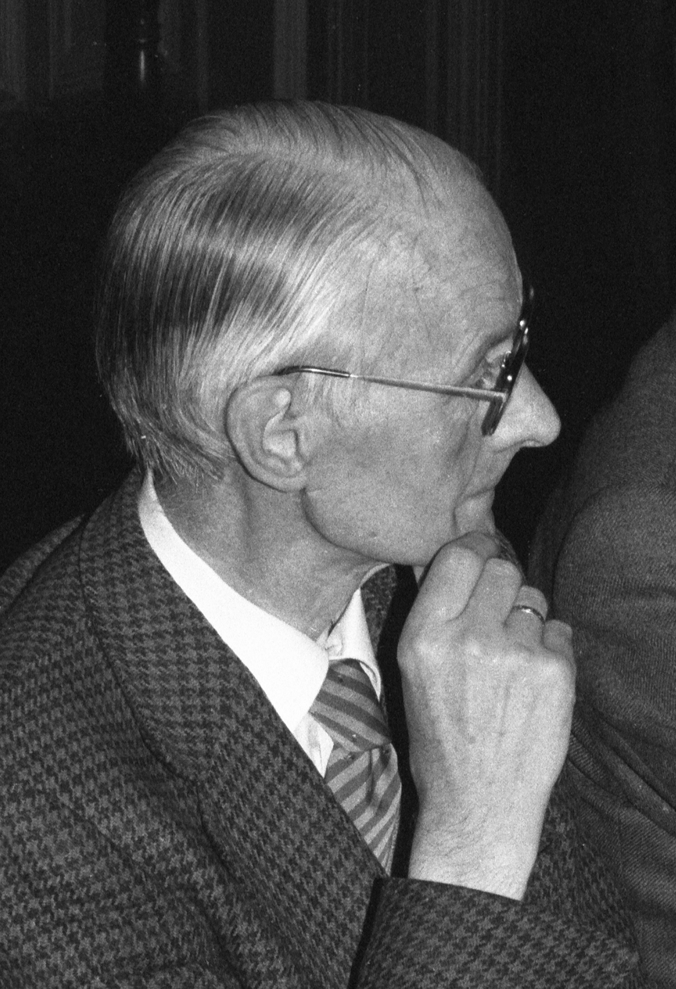 Joseph Marechal, Belgian historian and archivist (1911-1993)